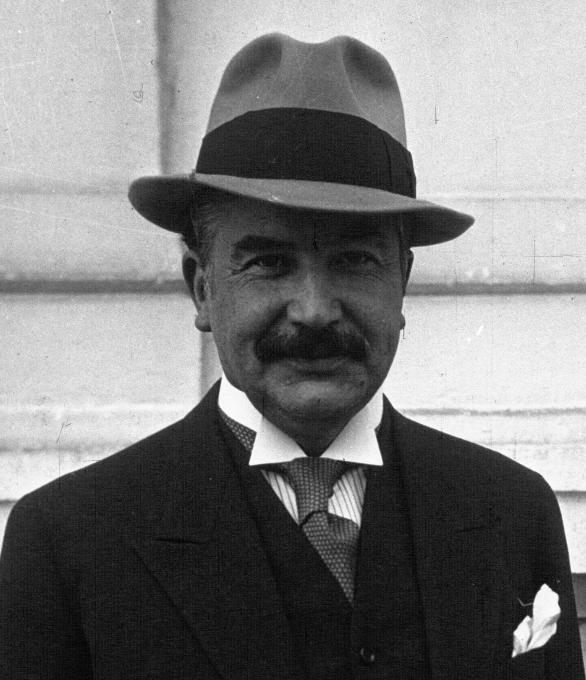 Closeup on photo of Joseph Bech taken in 1933, also available on Commons.